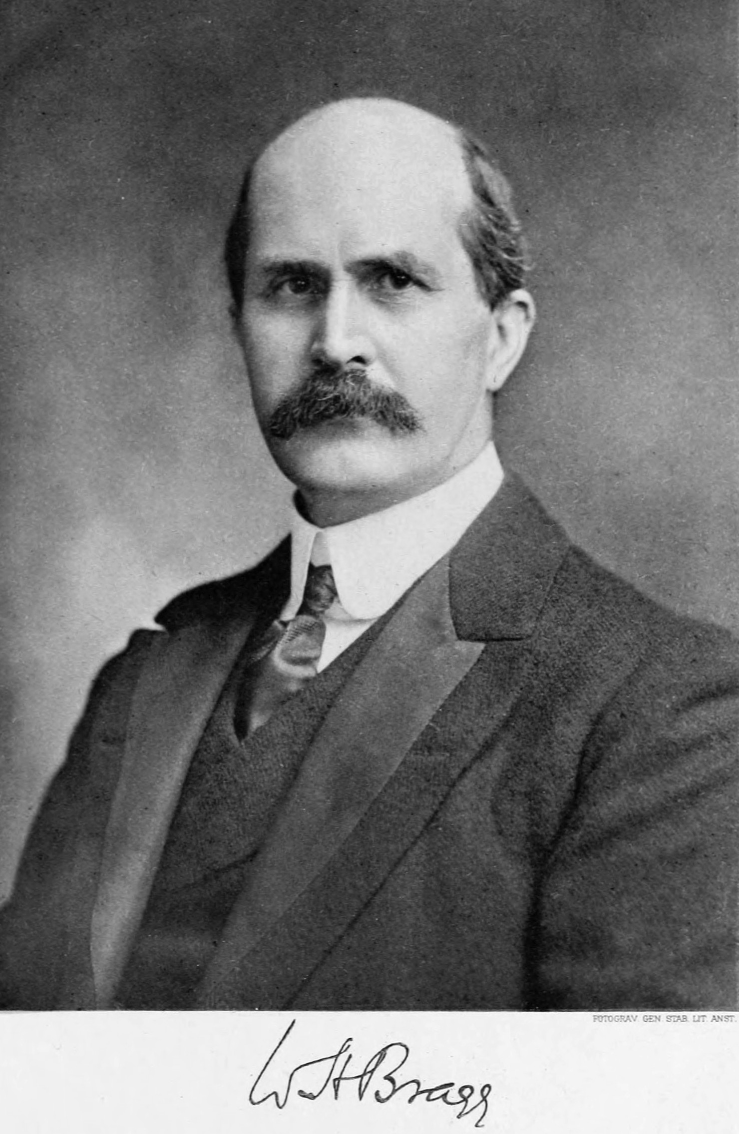 William Bragg